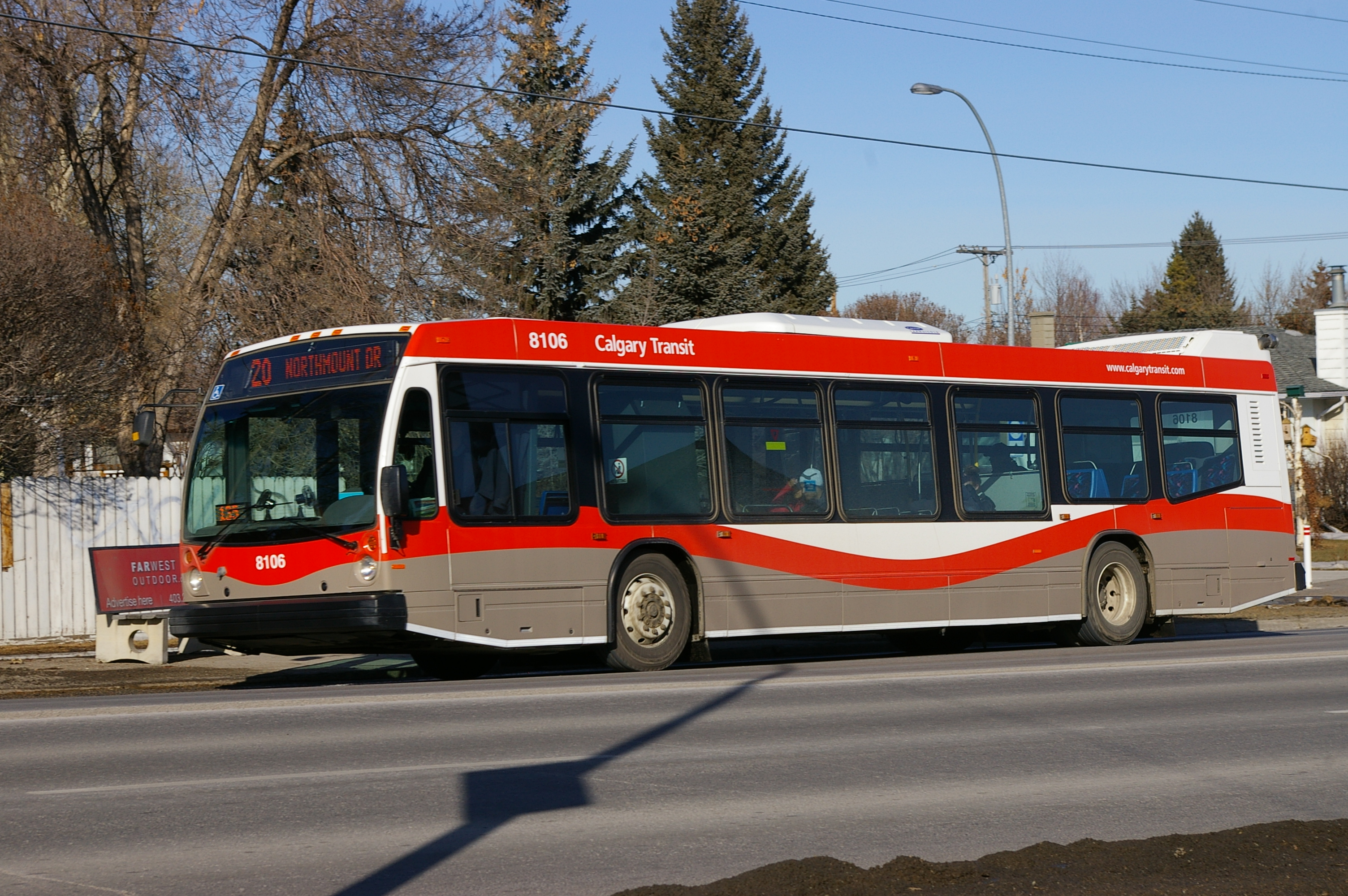 A Calgary Transit Novabus LFS (Route 20)